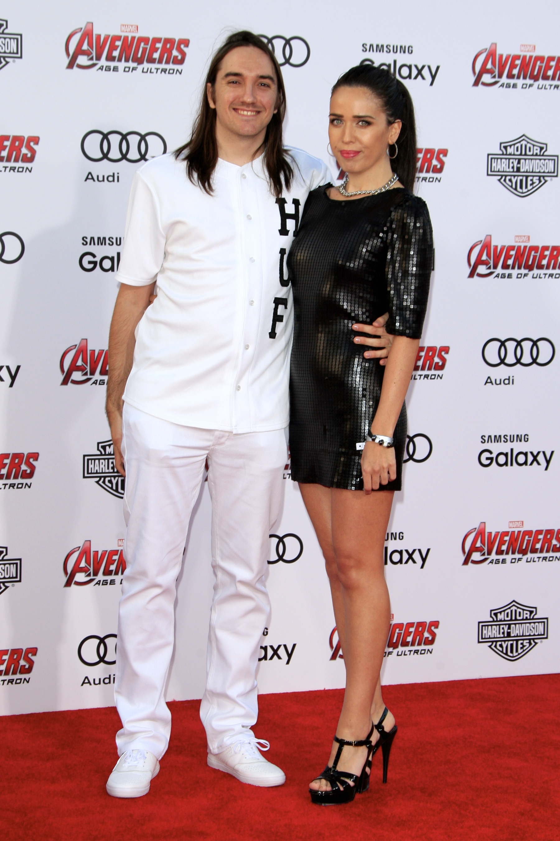 Logan Yuzna and Diana Lado attend Marvel Avengers, Age of Ultron World Premiere in Hollywood, California